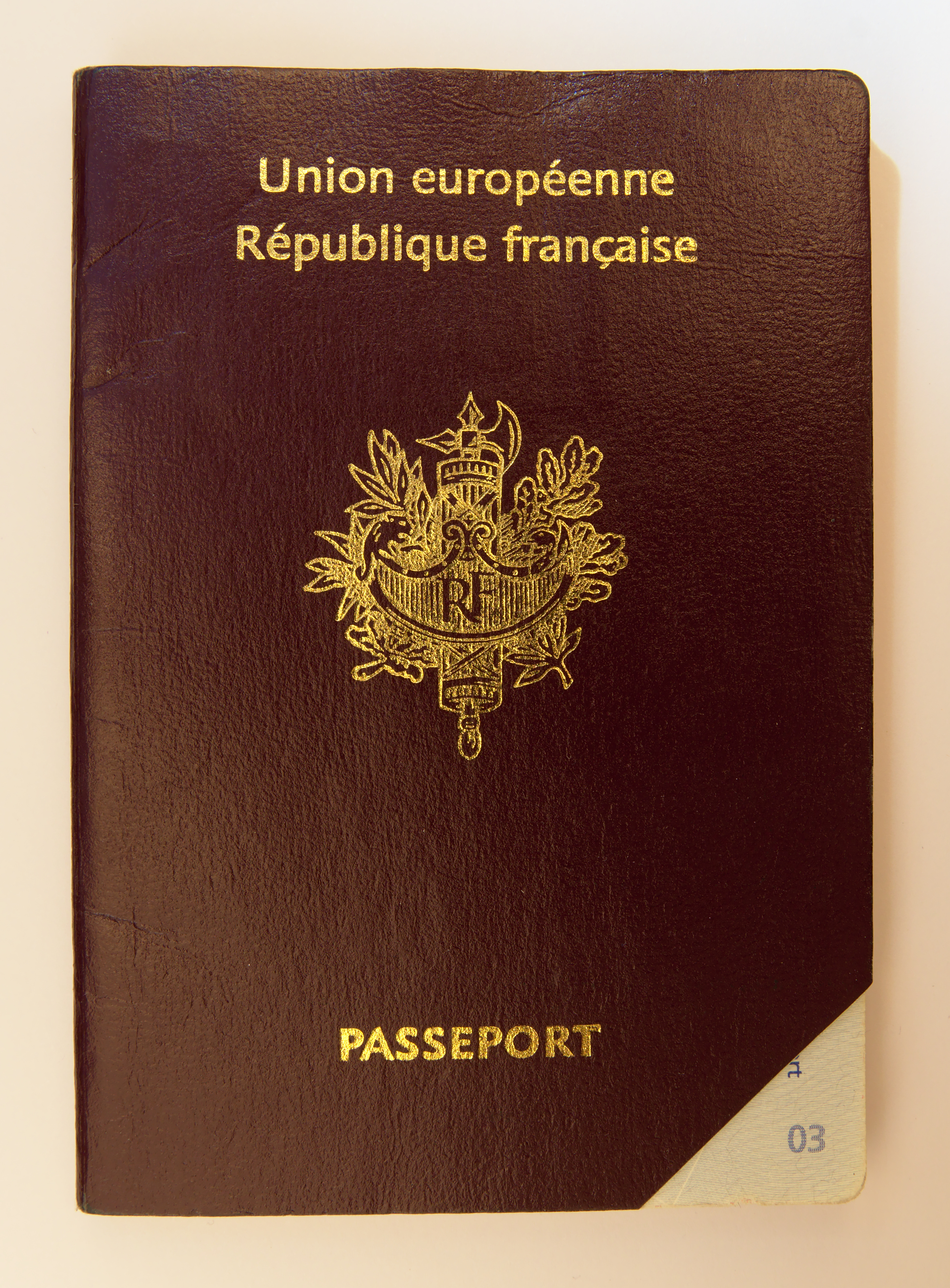 Canceled French passport, issued in 2004 and expired in 2014.